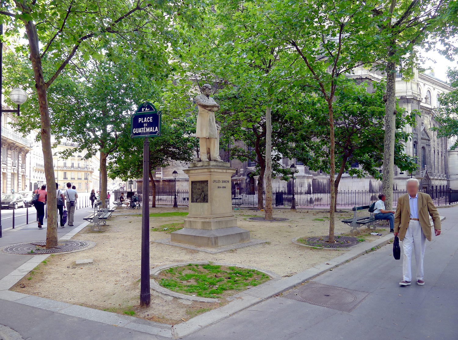 Guatemala place - Paris